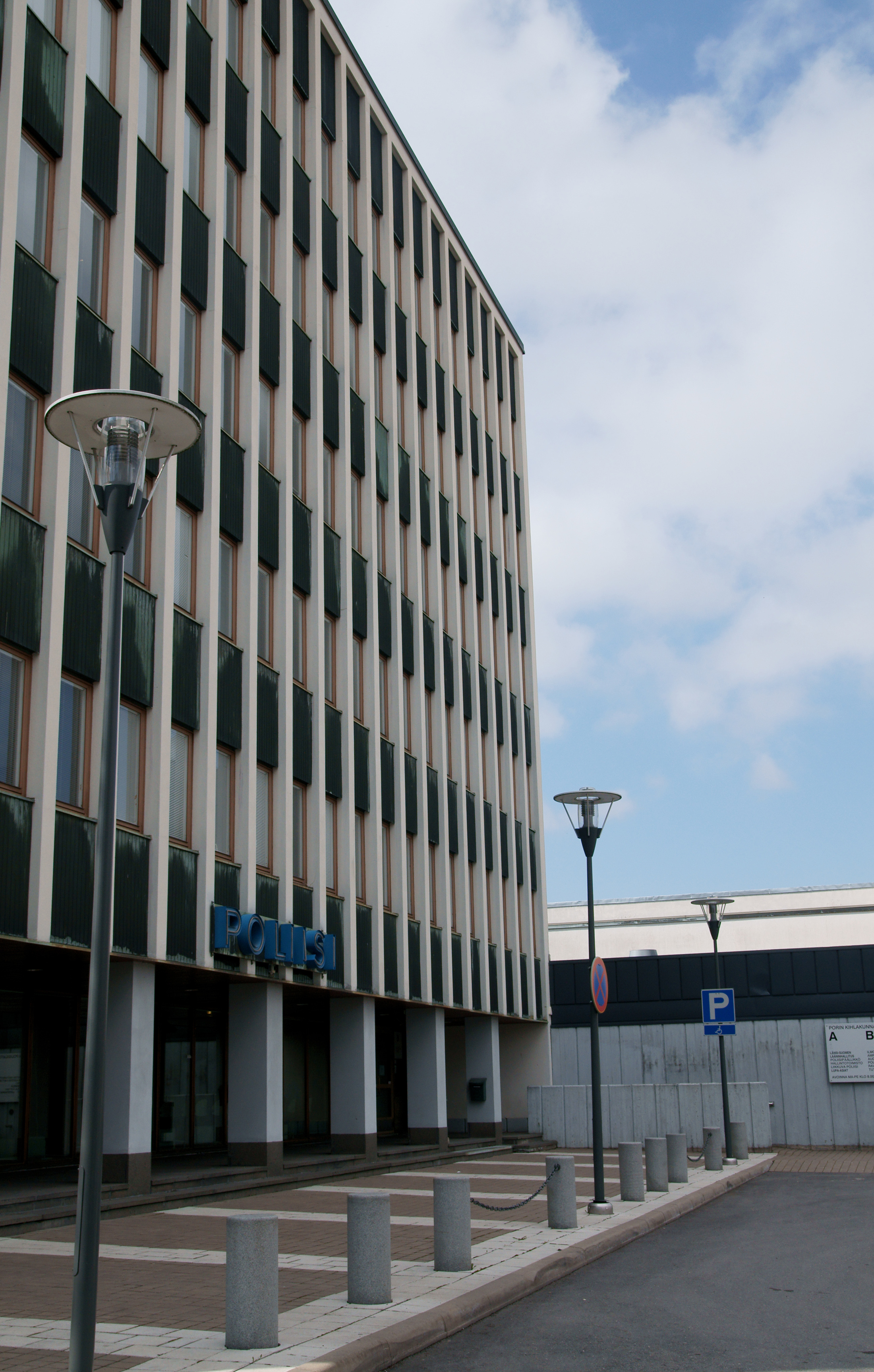 Police station of Pori.